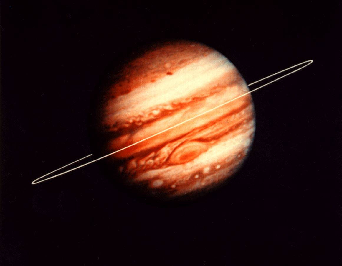 Voyager 1 images gave the first indication of a faint ring around Jupiter. The location of the ring is indicated by the white line. The thickness of the ring is estimated to be 30 km or less. Jupiter is about 142,000 km in diameter. The ring has a diameter of about 250,000 km. North is at 11:00